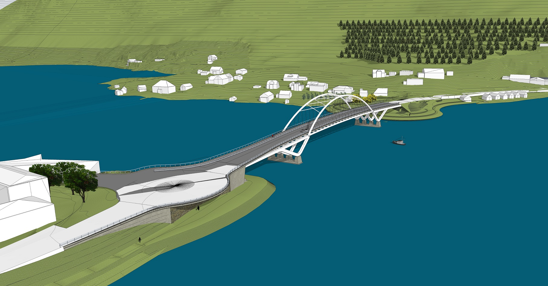 Statens Vegvesen drawing of New bridge at Loftesnes, Sogndal